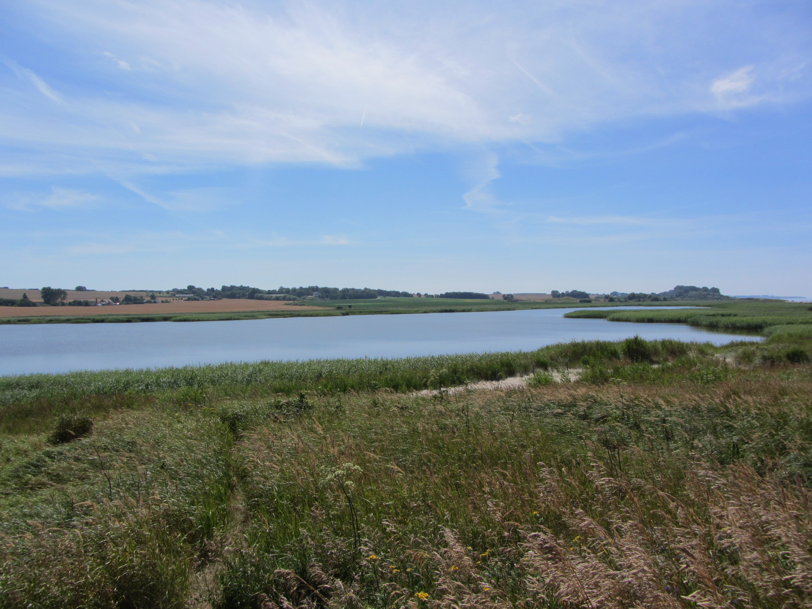 Nature reserve Riesensee - View from northern side - north of Kägsdorf, district Rostock, Mecklenburg-Vorpommern, Germany